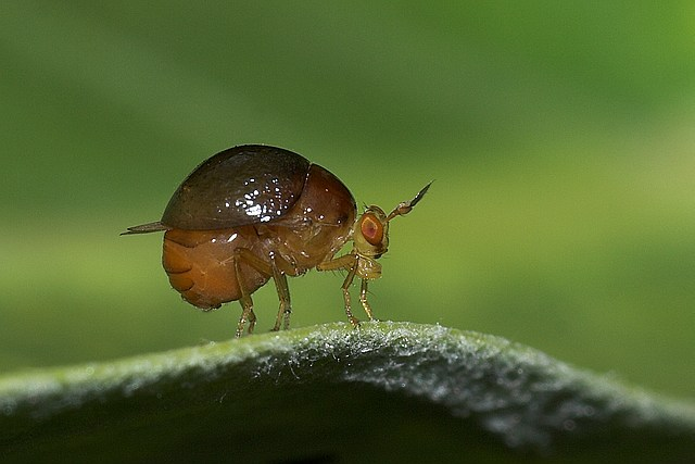 A Beetle-fly or Hunchbacked fly from Shendurney hills, Kerala, India.